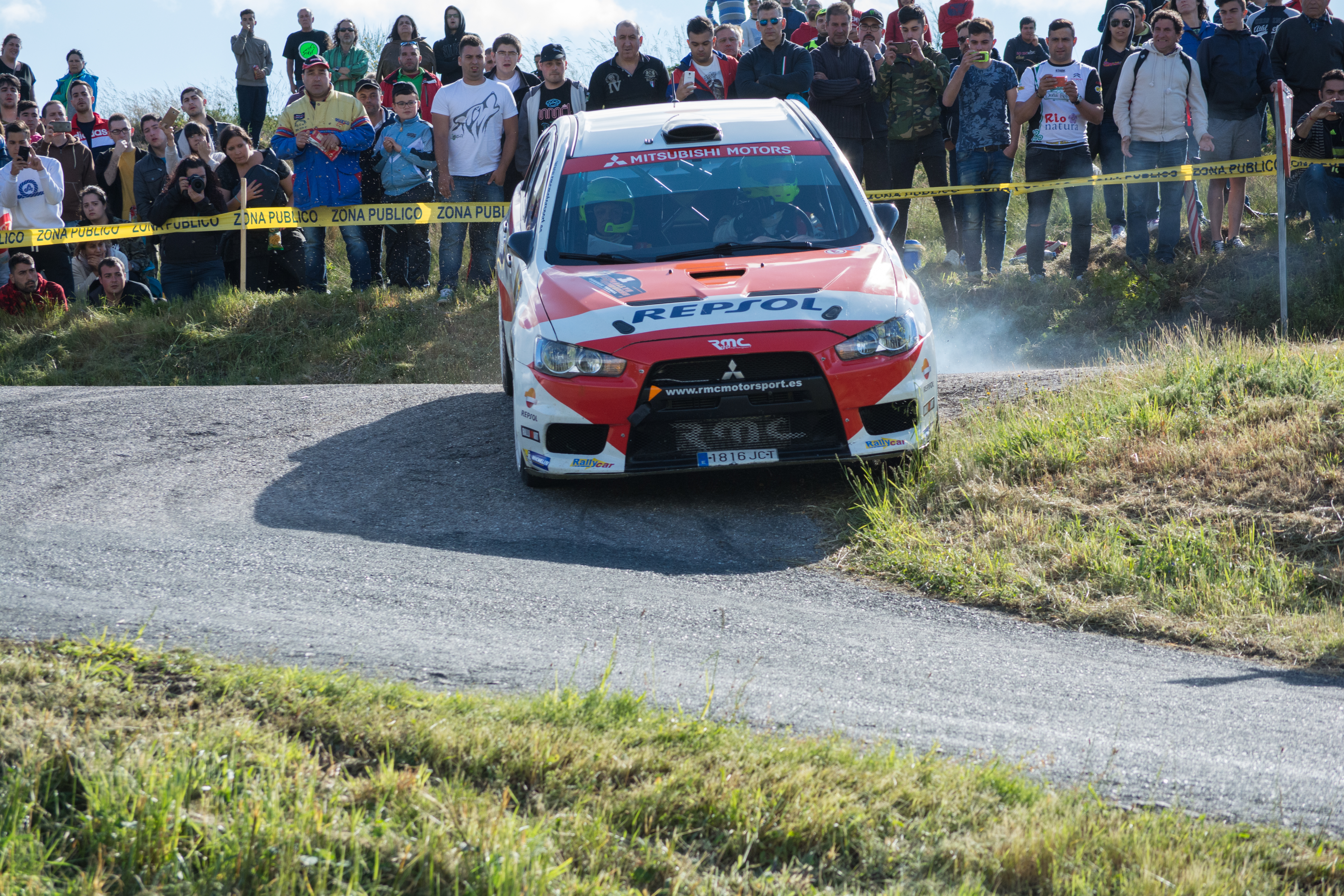 '49 TRally de Ourense ' in 2016, in the city of Ourense, scoring for the CERA.